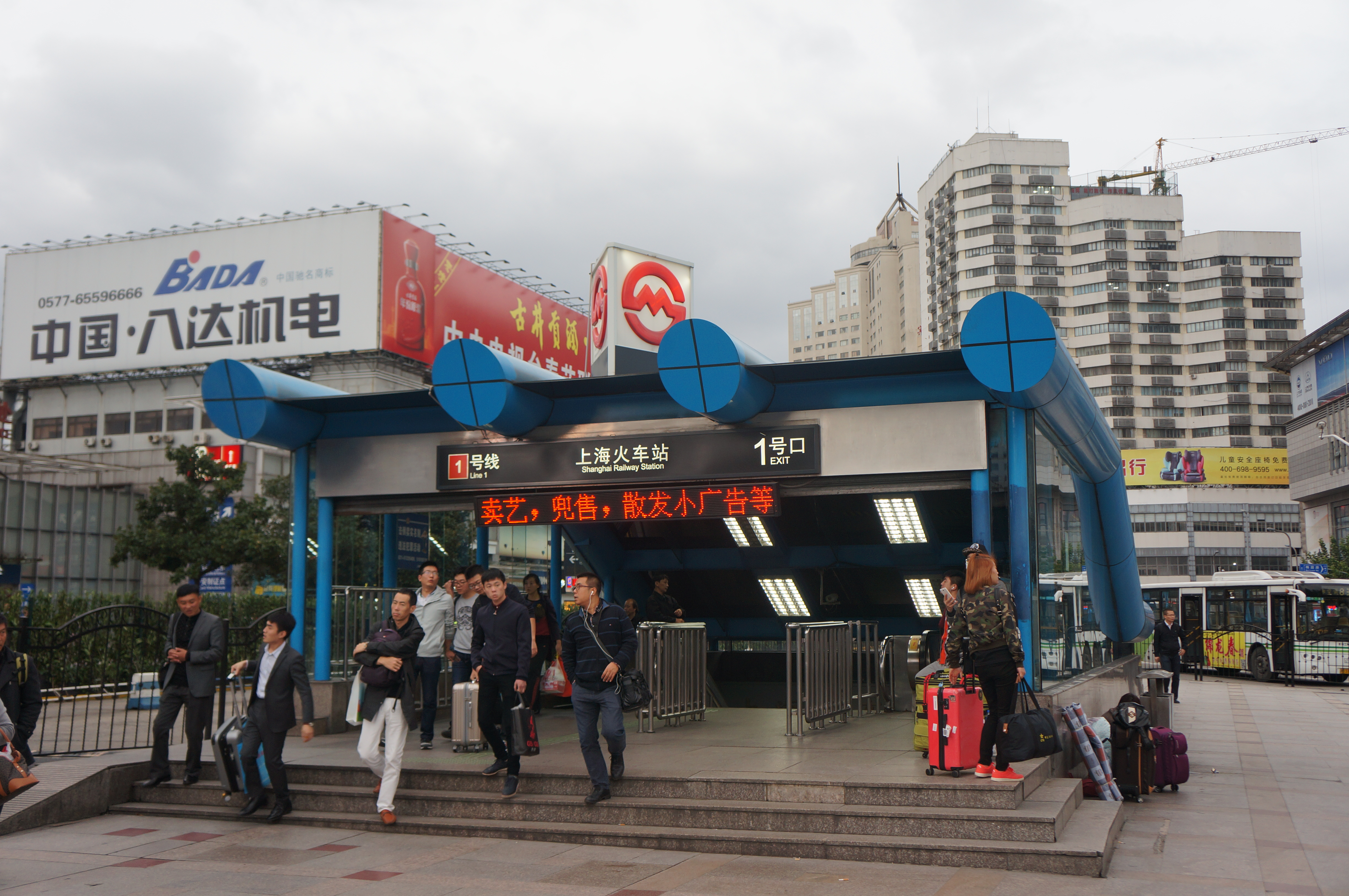 201610 Exit 1 of Shanghai Railway Station L1